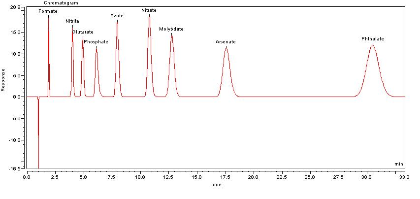 Ion chromatograms